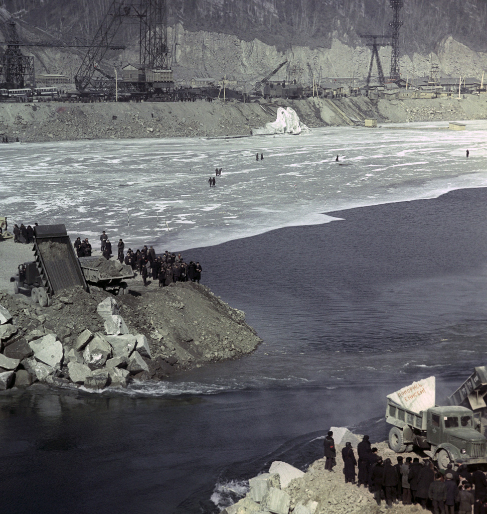 “Construction site of Krasnoyarsk Hydroelectric station”. Construction site of Krasnoyarsk Hydroelectric station. Yenisei damming, march 25, 1963.